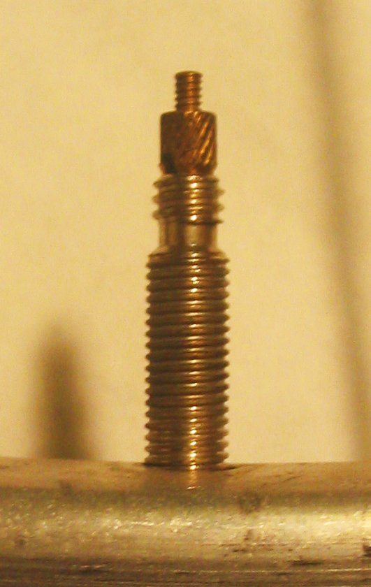 Presta valve, shown closed. Photo taken by User:Aezram on October 30, 2005.